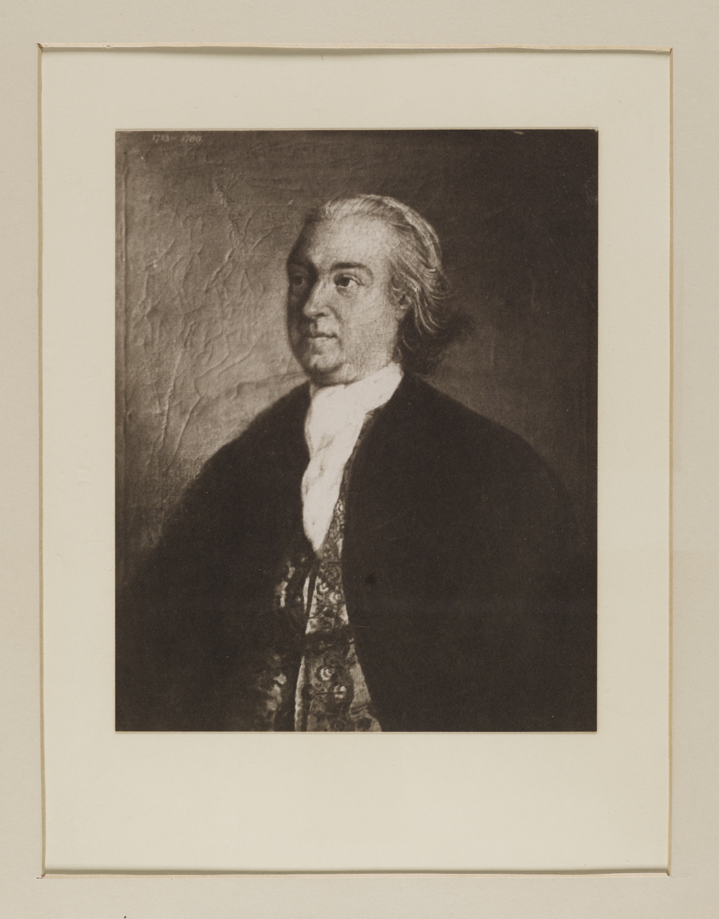 Portrait of Sir James STEUART of Goodtrees and Coltness (1681-1727) Portrait of Sir James Stueart, middle/older age, dressed in black coat, white neck tie, and printed vest